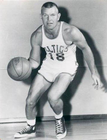 Former Boston Celtics player Jim Loscutoff